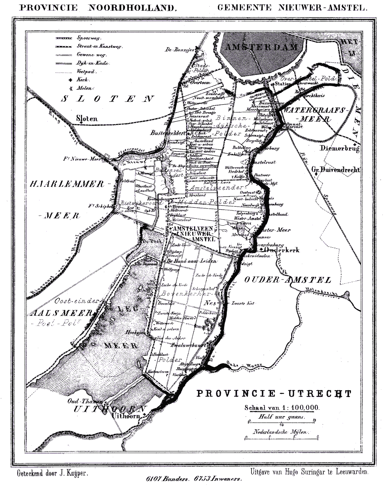 Historic map of Nieuwer-Amstel, North Holland, the Netherlands